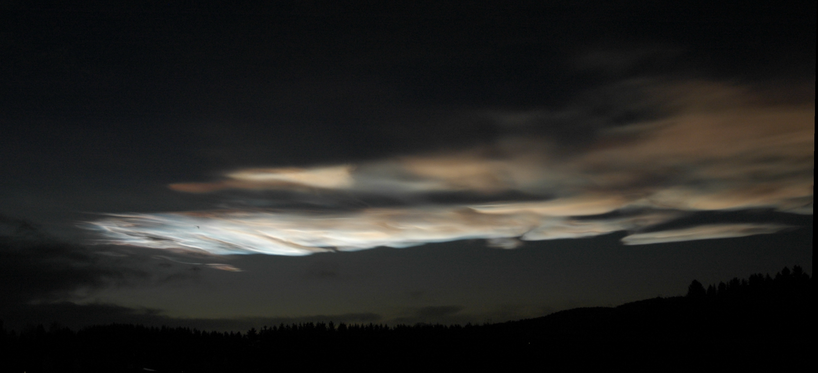 Polar stratospheric clouds as seen westward of Bødalen, southern Norway, in the evening 25.01.2008. At the same time a severe storm hits the norwegian coast further west, possibly causing the clouds to form over the high mouintans between.